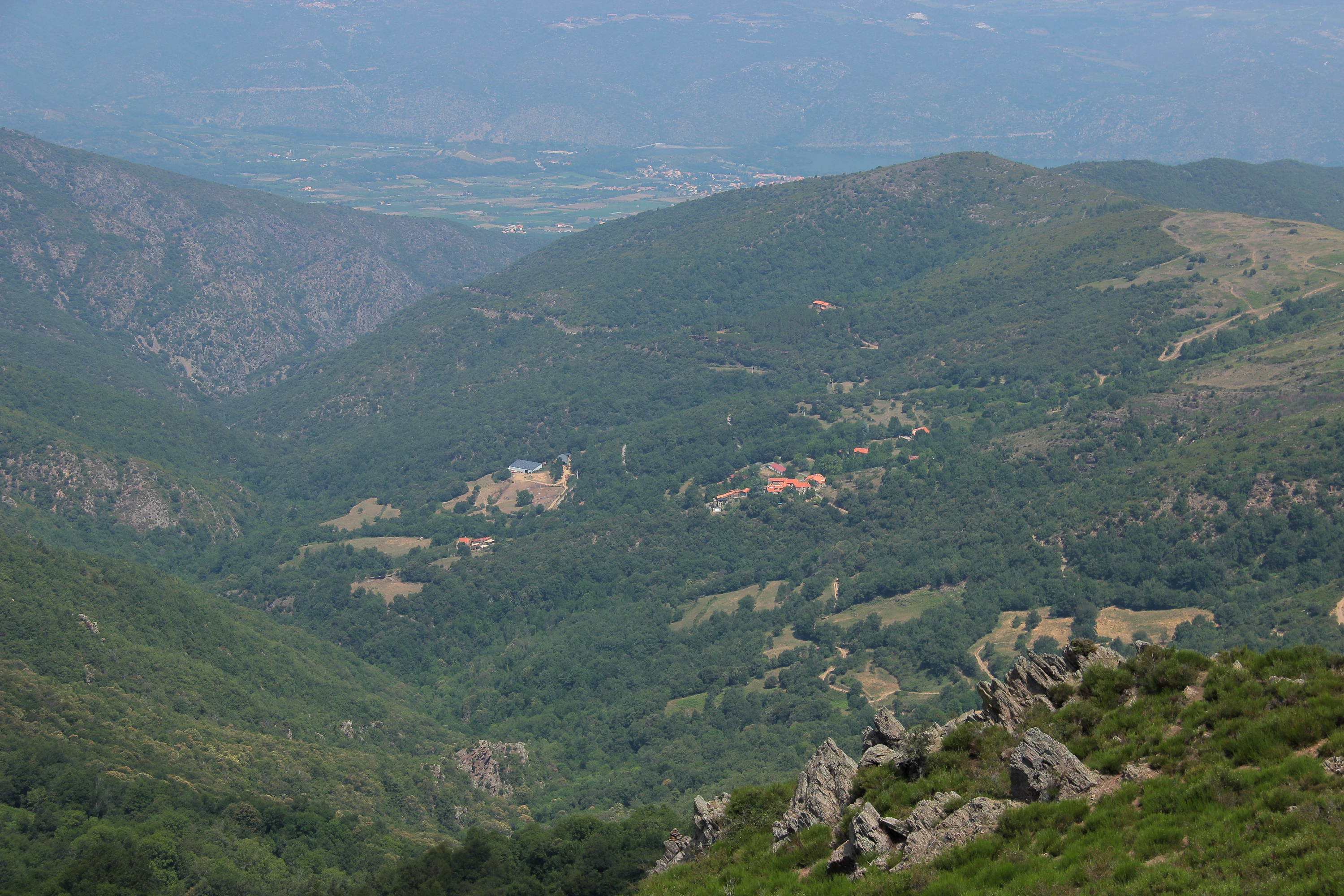 Glorianes village, view from Puig Soubiranne (Pyrénées orientales).